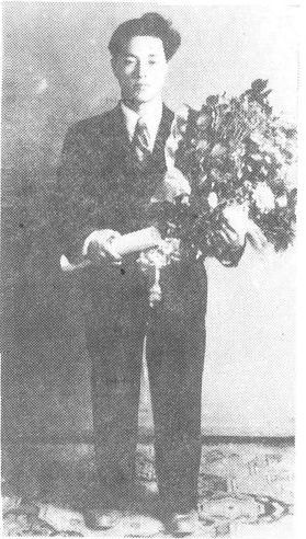 Kim Young-sam graduating from Seoul National University, 1951